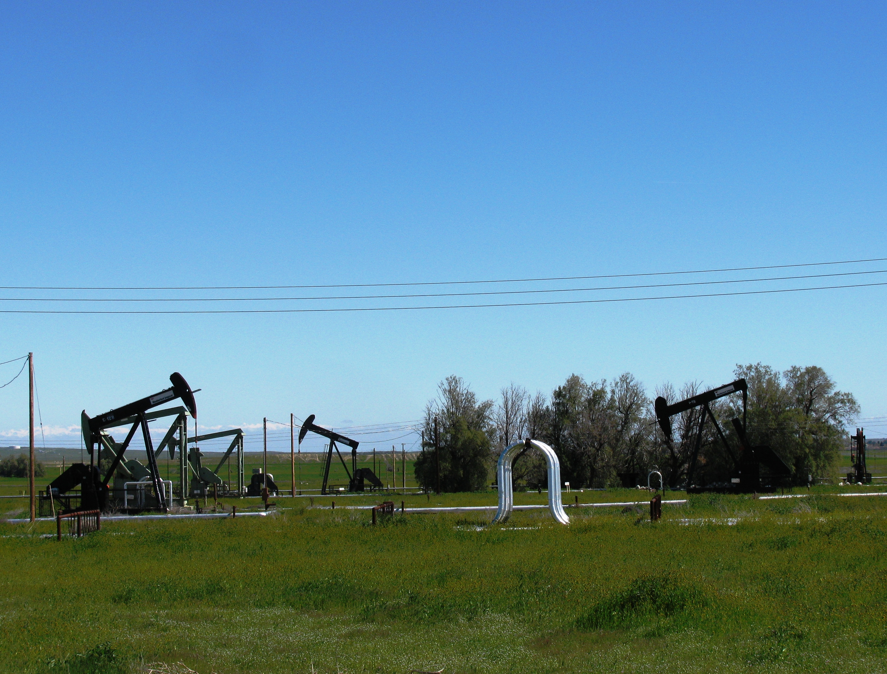 Wells and steam pipes on the Coalinga field. Photo by self, 3/13/10; GFDL/equiv.